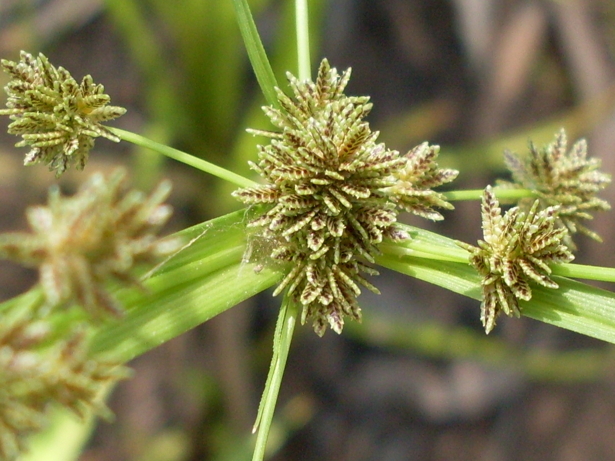 Cyperus difformis. Pilliga Forest, NSW Australia, January 2009.